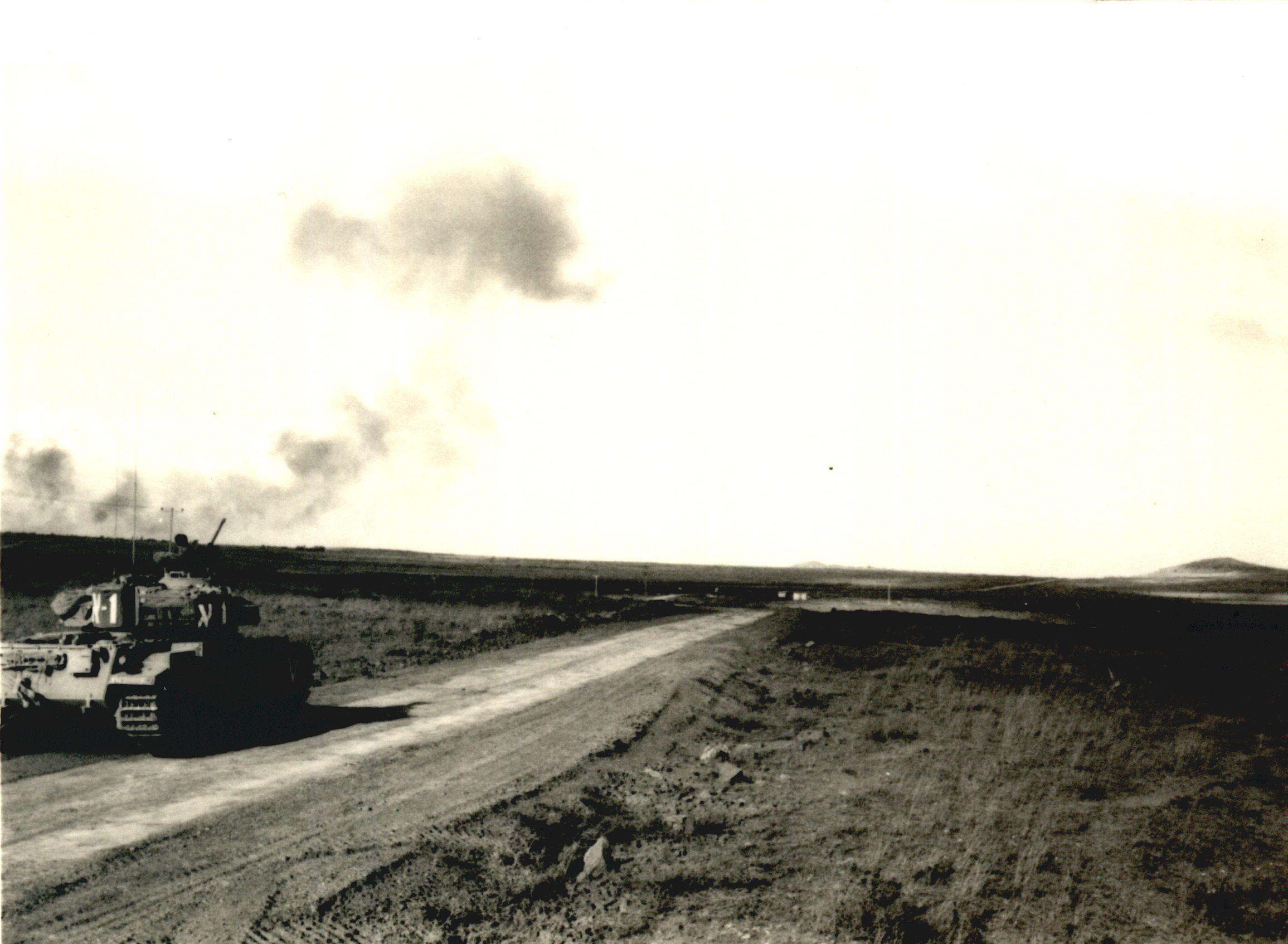 This photo was taken by Nir Keren Tzvi, during the Yom Kippur War (October 1973), in the Valley of Tears.